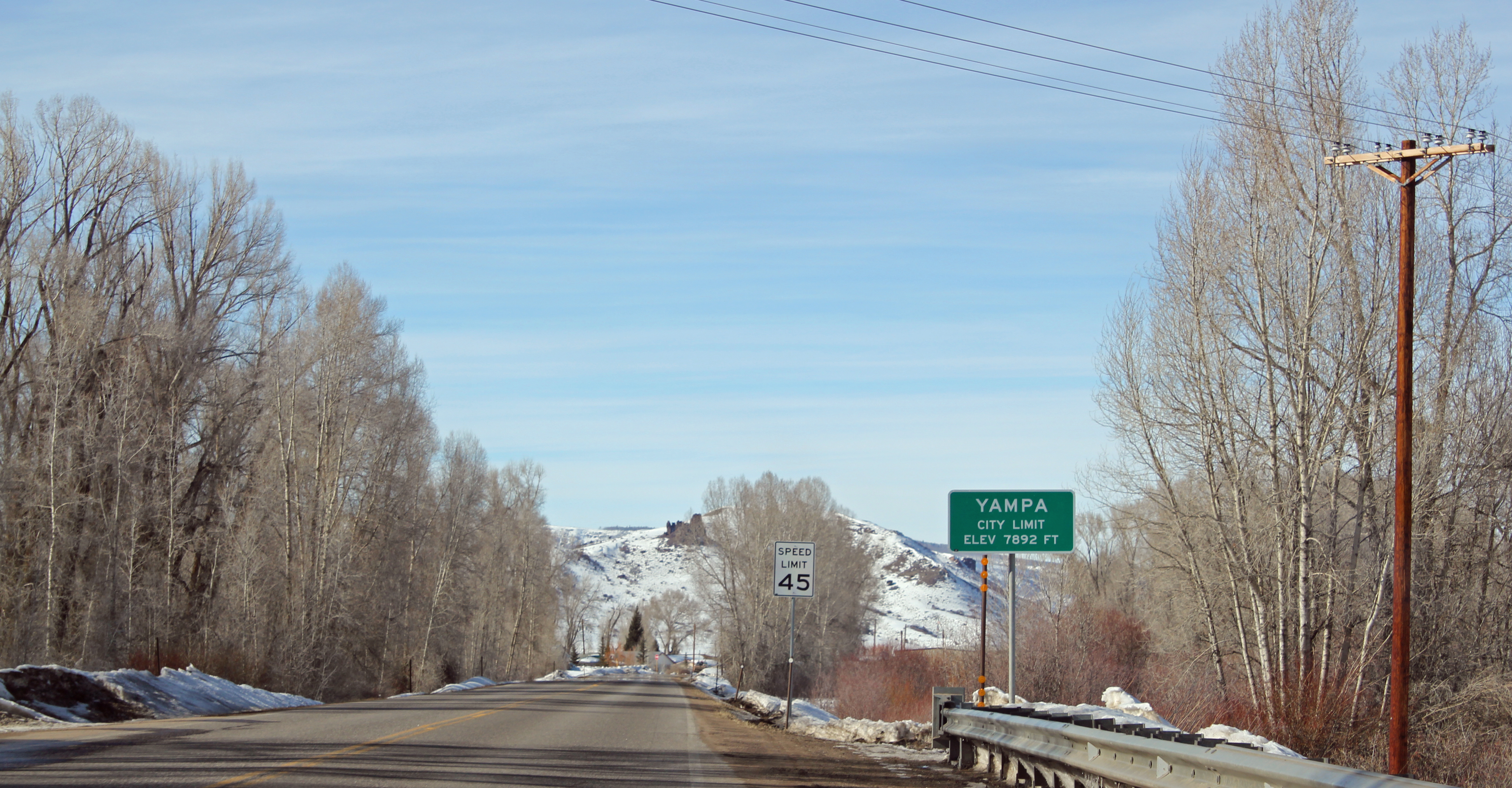 Yampa, Colorado. The view is entering the town on Colorado State Highway 131. Yampa is in Routt County.